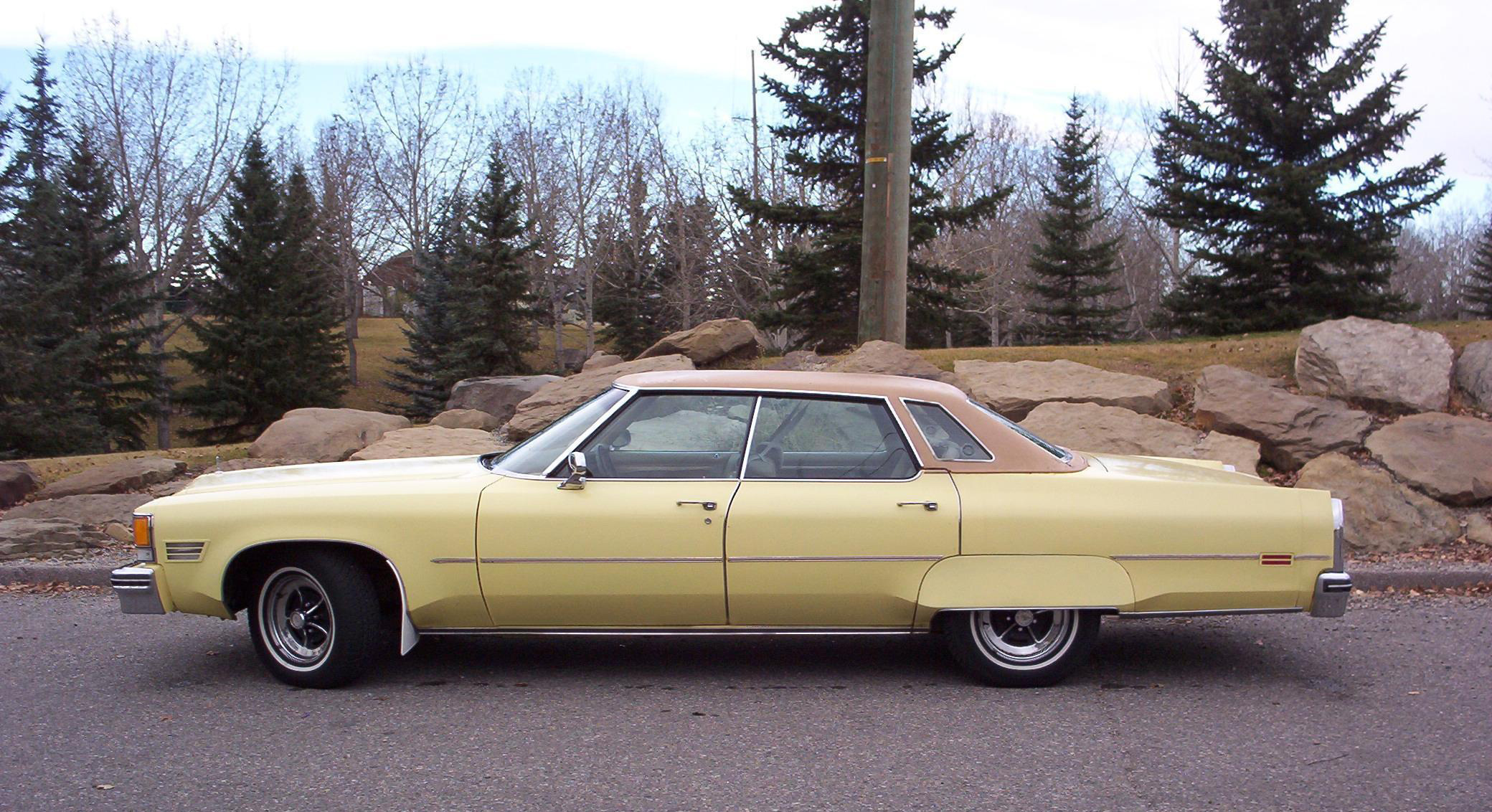 1976 Oldsmobile 98 Source Author: Peter Eric Bruner Source: The A-Body Site URL: Photo Date: October 26, 2006 Photo Location: 50.906818, -114.075626 - "THE BARN" - Shawnessy District, Calgary, Alberta, Canada Photo Taken With: Kodak CX4300 Digital Camera